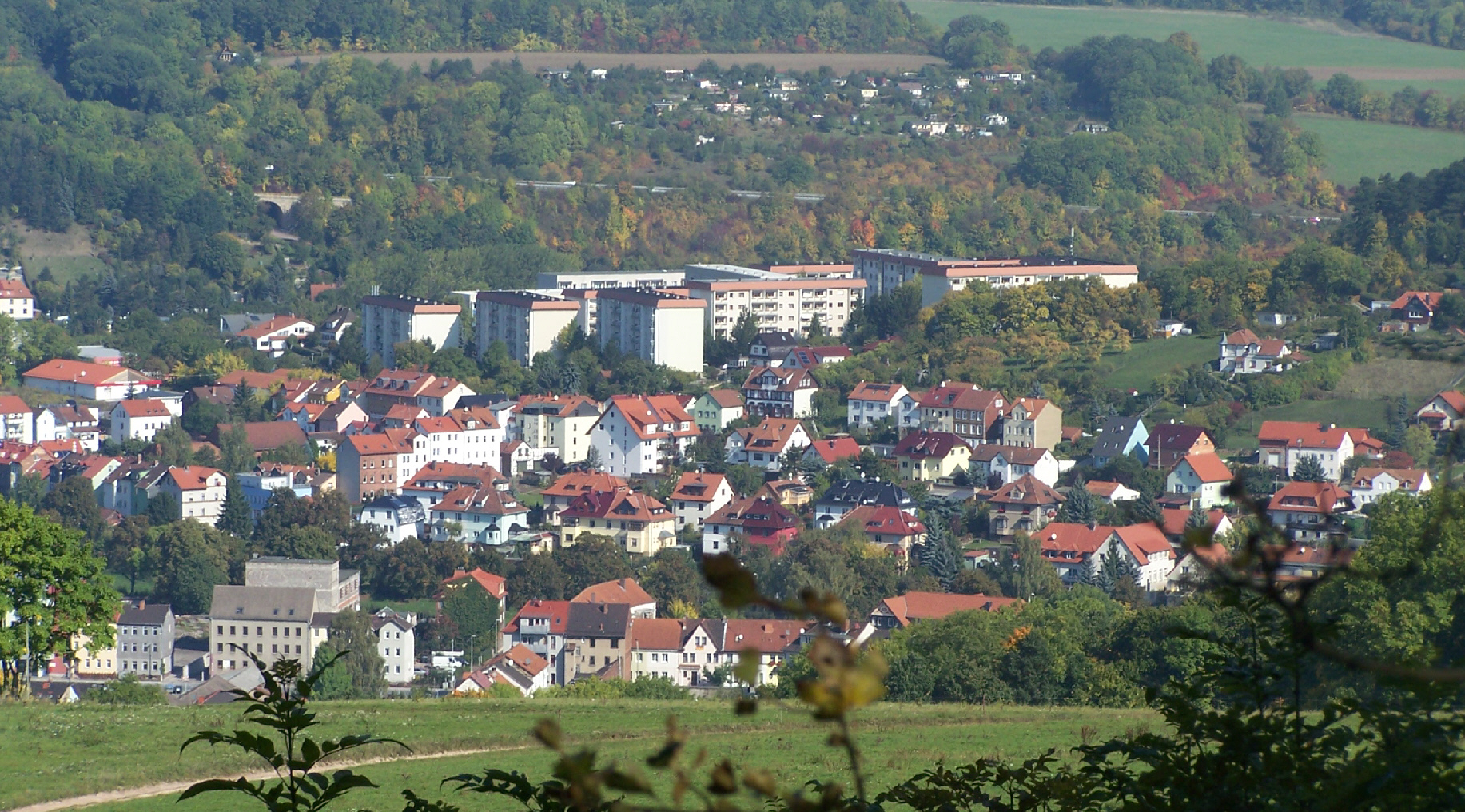 The Petersberg settlement and a part of the Oststadt in Eisenach.